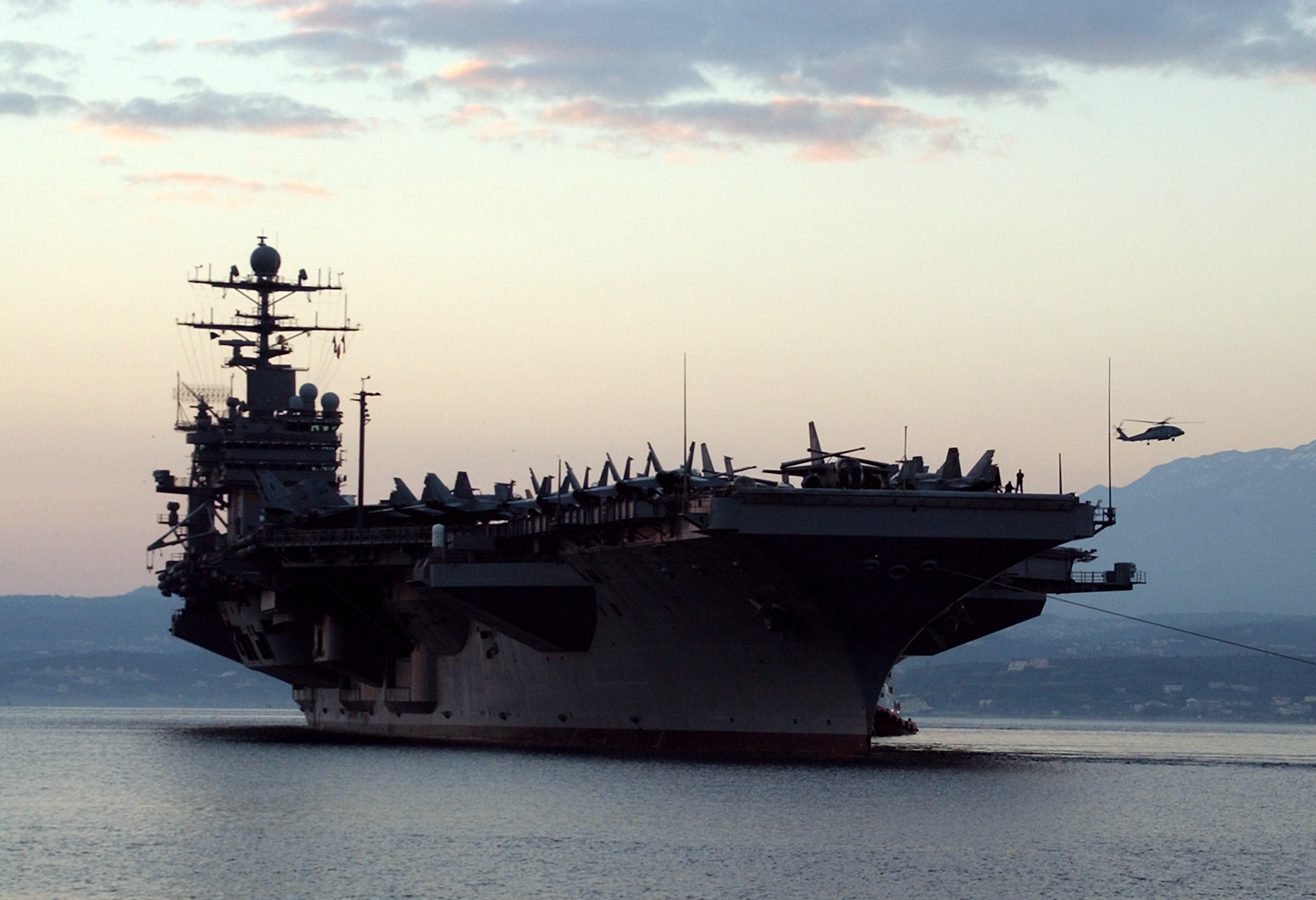 Souda Bay, Crete, Greece (Feb. 22, 2006) The Nimitz-class aircraft carrier USS Theodore Roosevelt (CVN 71) arrives for a logistics stop on the Greek island of Crete. Roosevelt and Carrier Air Wing Eight (CVW-8) are currently underway on a regularly scheduled deployment supporting maritime security operations. U.S. Navy photo by Mr. Paul Farley (RELEASED)